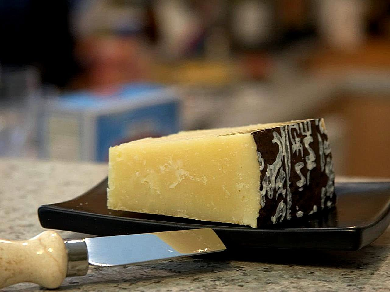 Image title: Pecorino romano cheese Image from Public domain images website